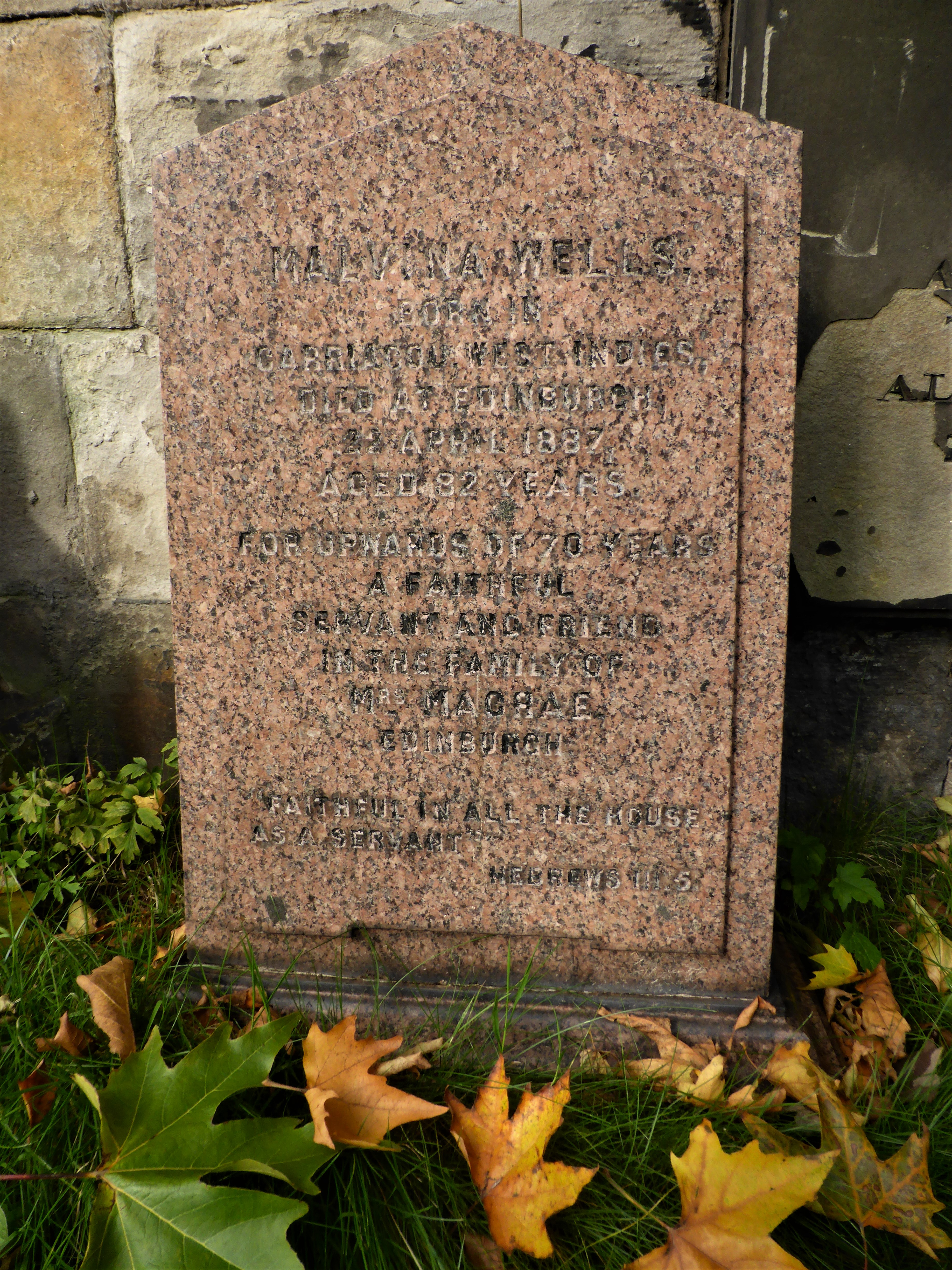 This is the gravestone of Malvina Wells in St John's Kirkyard, Princes Street, Edinburgh. It is the only known grave in Edinburgh of someone who was born a slave.